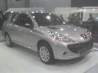 The 2009 Peugeot 207 Sedan at the SIAM 2008. Built in Brazil.